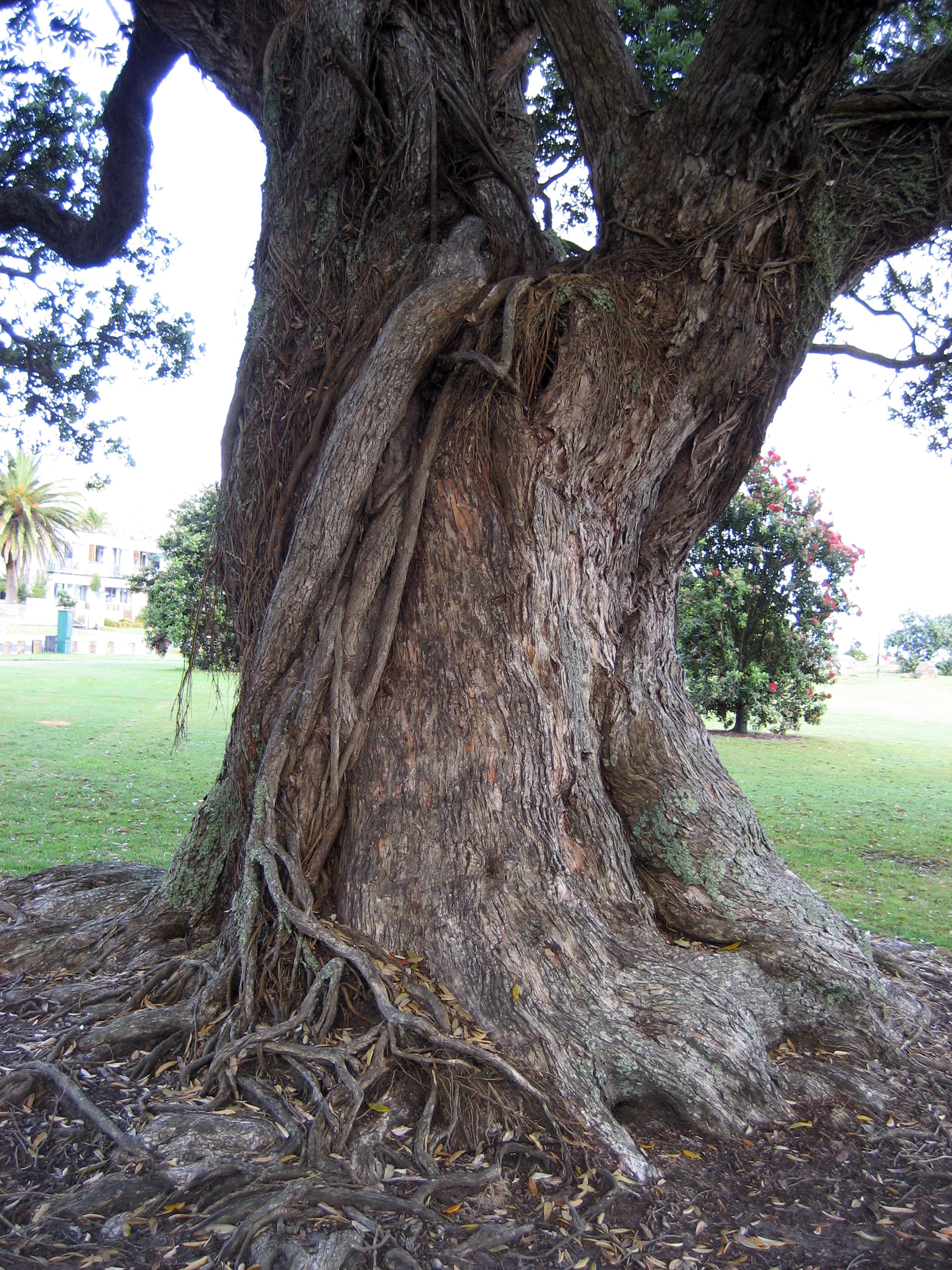 Trunk of Pōhutukawa (Metrosideros excelsa), Ōhope, near Whakatāne, New Zealand, showing former aerial roots fused into the trunk.